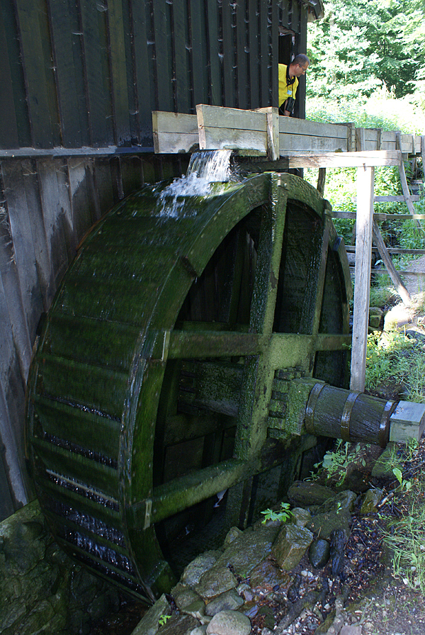 Tadre Watermill in Elverdam Valley (Lejre Kommune). Working watermill museum under supervision of Roskilde Museum, Roskilde, Denmark